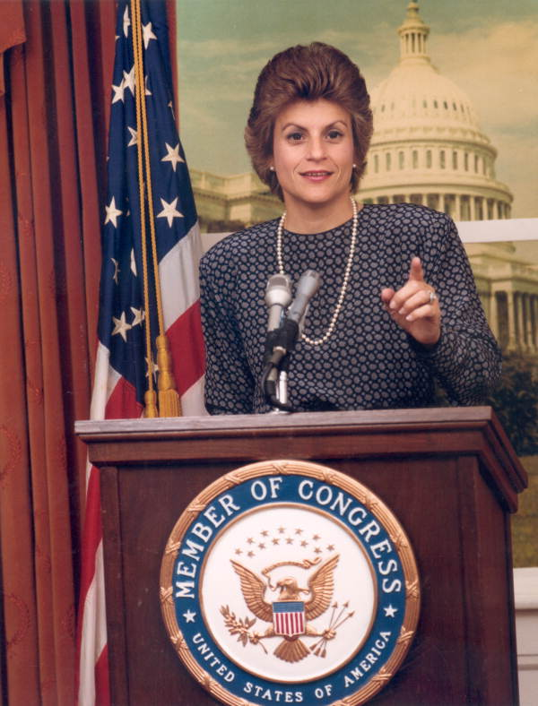 Rep. Ileana Ros-Lehtinen speaks shortly after being elected to Congress in a special election.